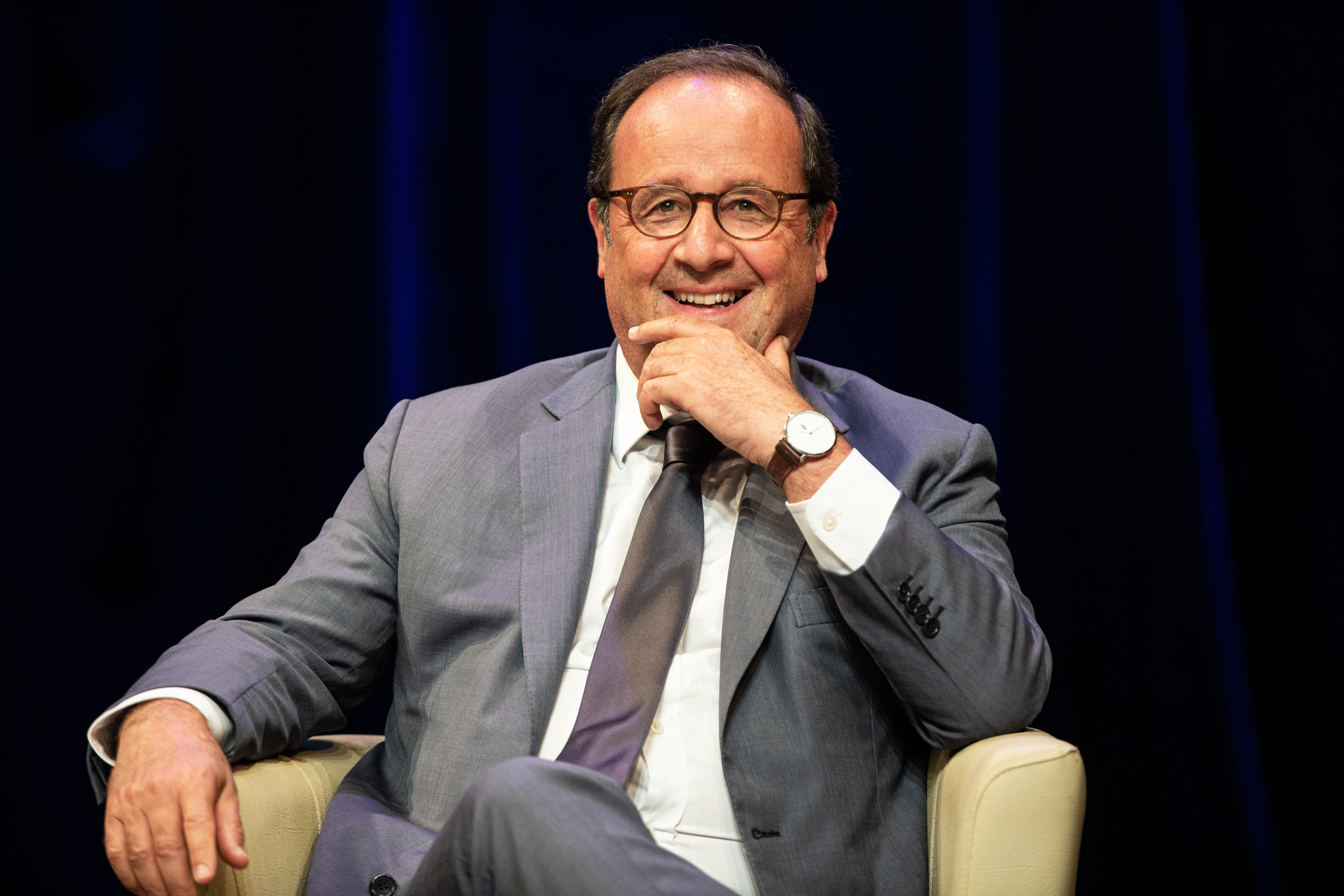 Former French President François Hollande at the École Polytechnique (France) during a conference about his presidency